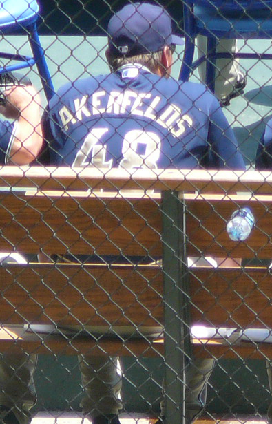 Please attribute this photo by name if used in places other than Wikipedia. 09:23, 28 May 2008 . . Chrisjnelson . . 395×616 (233 KB)